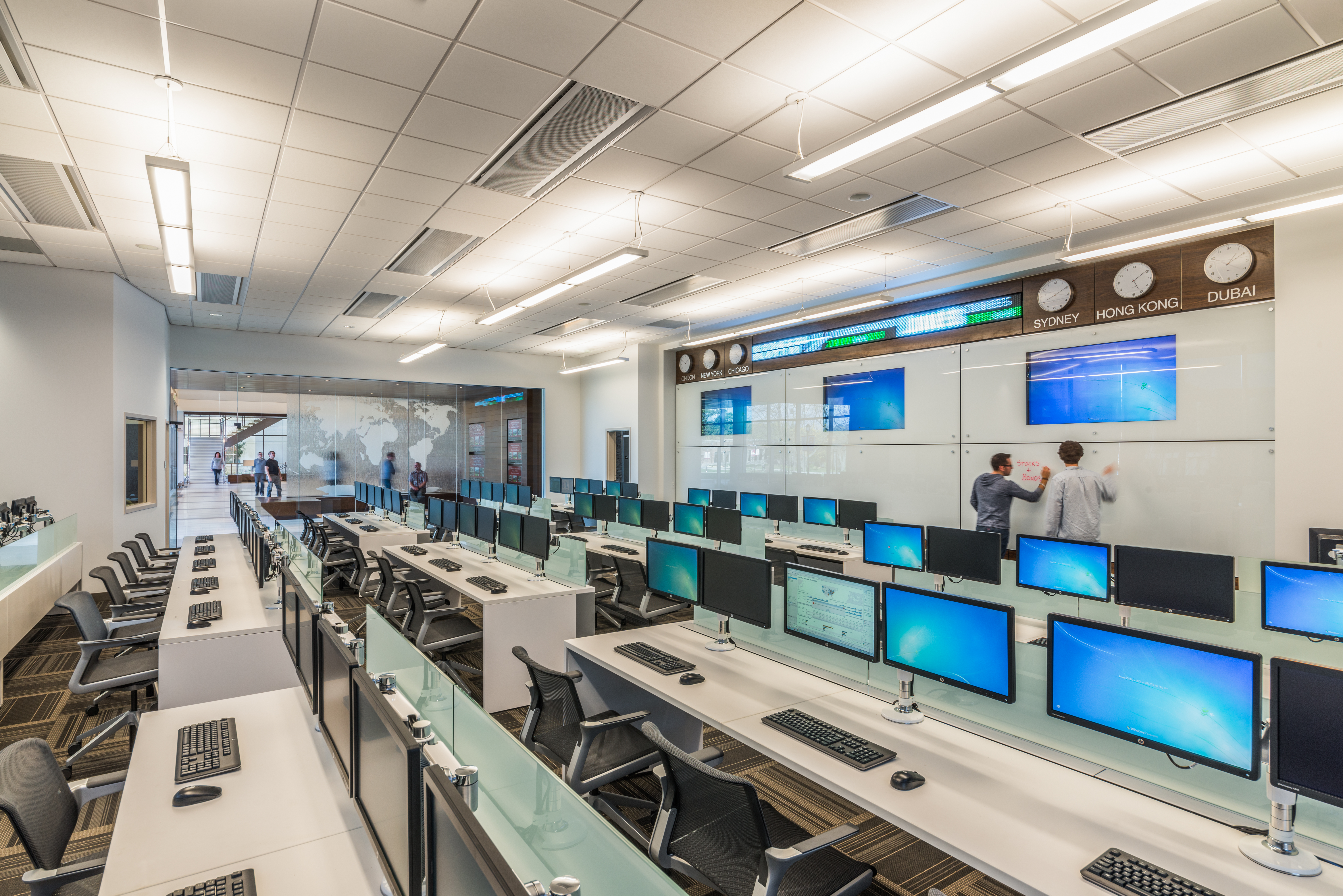 trading lab in Goodwin Hall